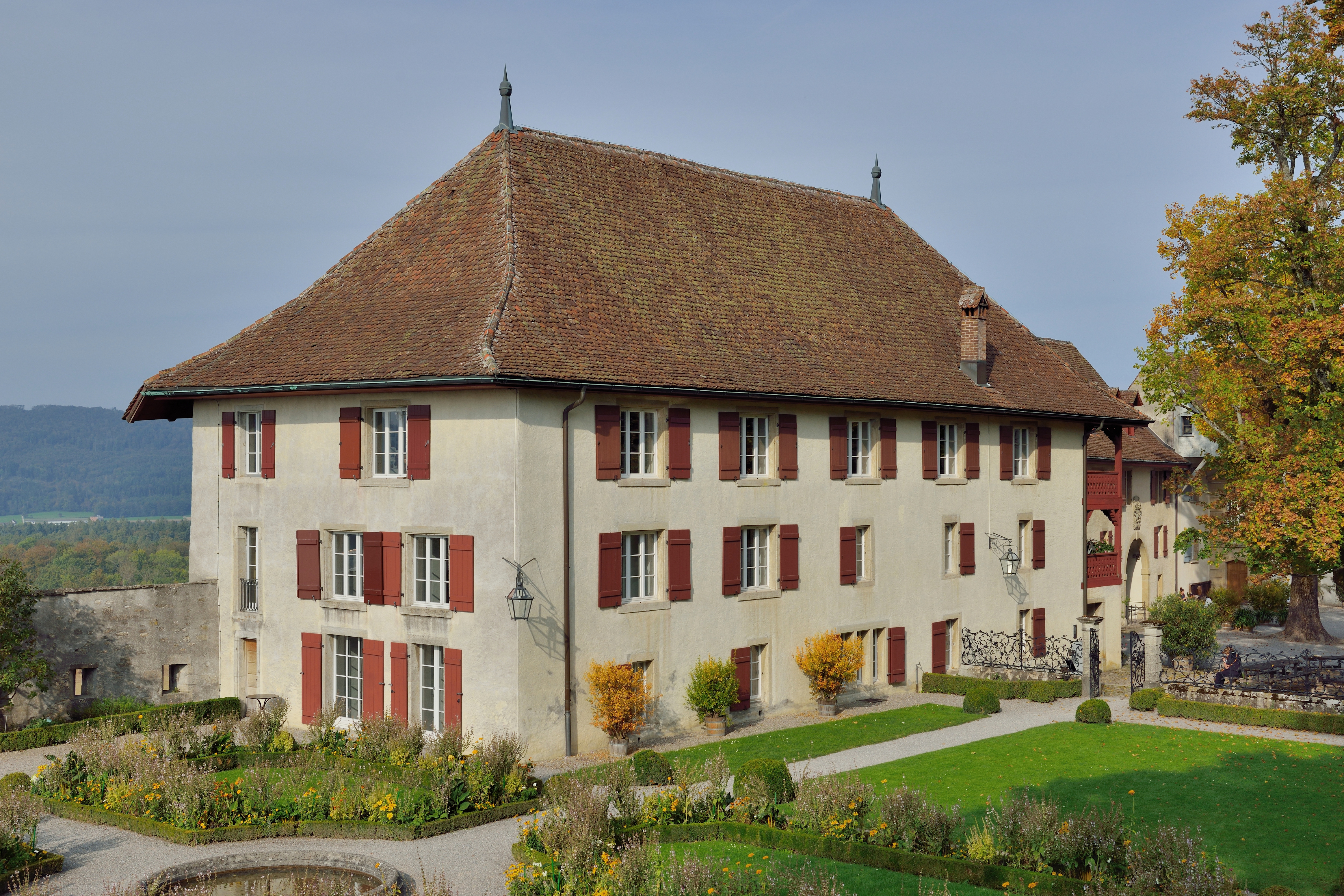 Lenzburg Castle